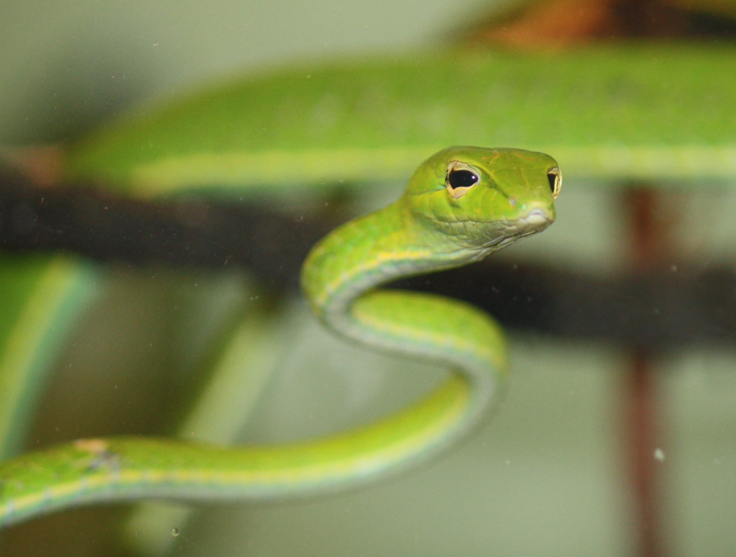 Asian Vine Snake Ahaetulla prasina at Cincinnati Zoo